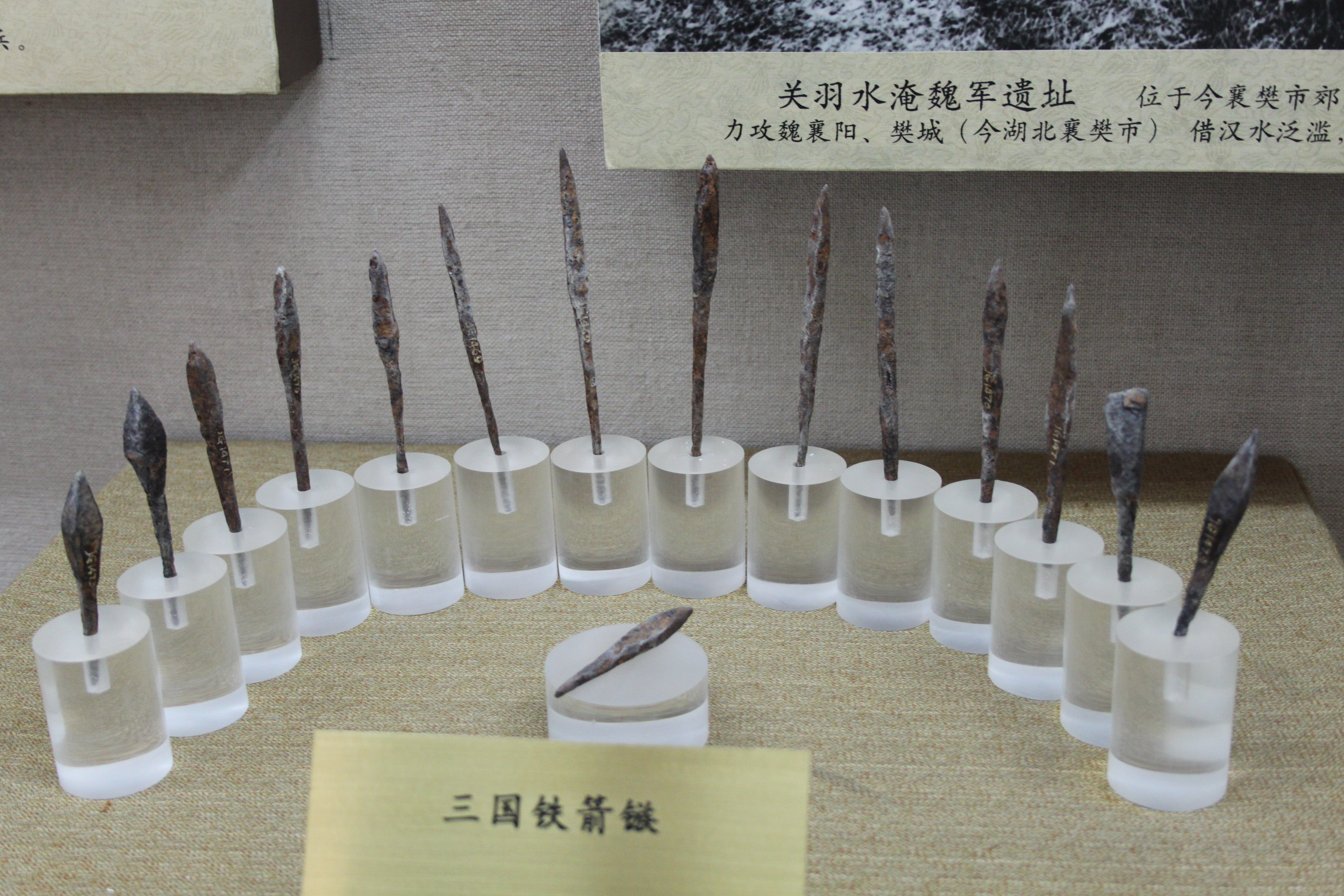 Three Kingdoms Iron Arrowheads